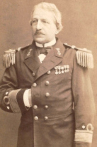 J. van Gogh